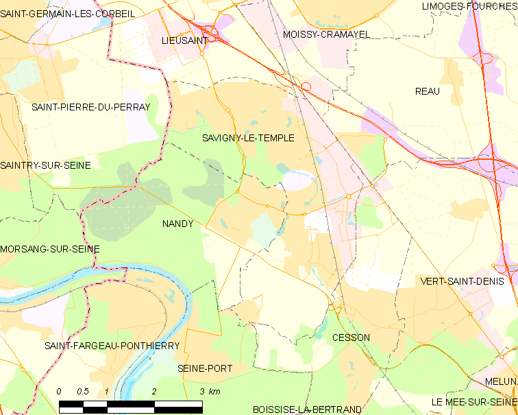 Map of French municipality Savigny-le-Temple